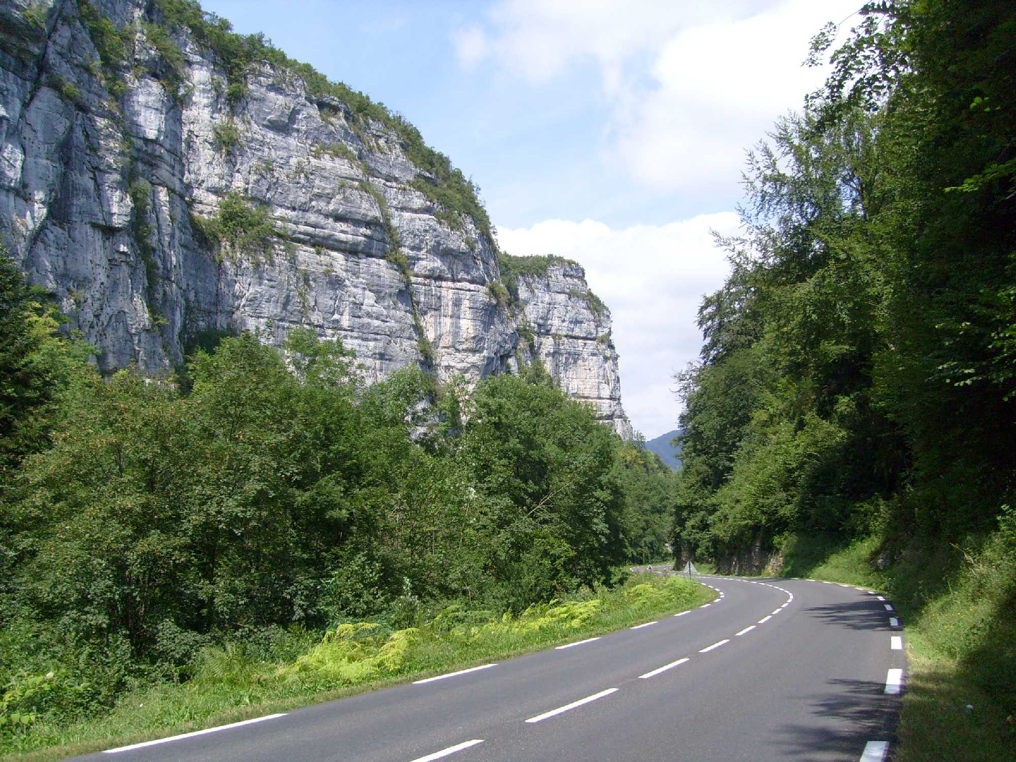 Grand Crossey narrow pass at Saint-Julien-de-Raz( Isère, France).